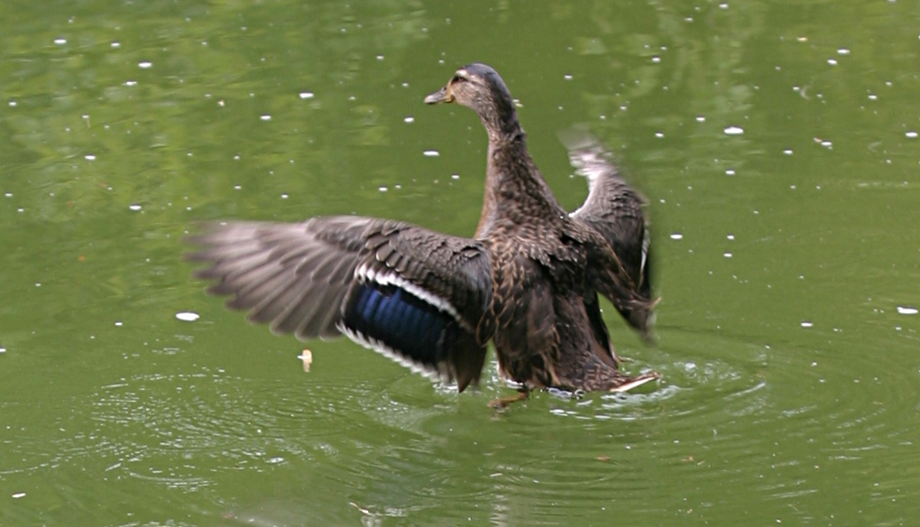 Mallard Duck (female) showing its blue speculum feathers taken at the Indianapolis Zoo.